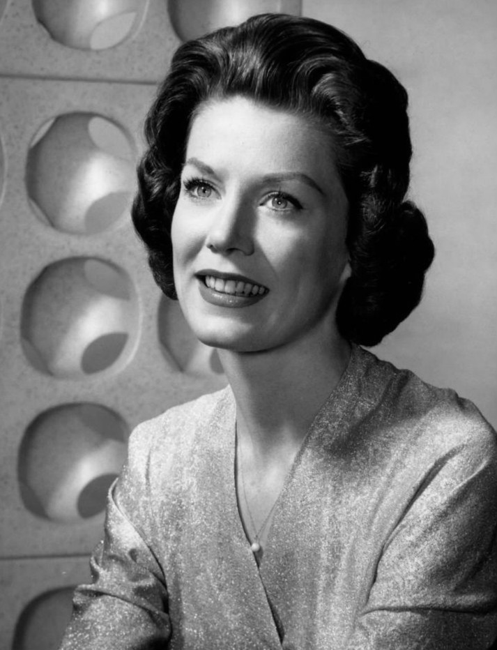 Photo of Ann Flood, who played Nancy Pollock Karr on the daytime drama The Edge of Night for over 20 years.